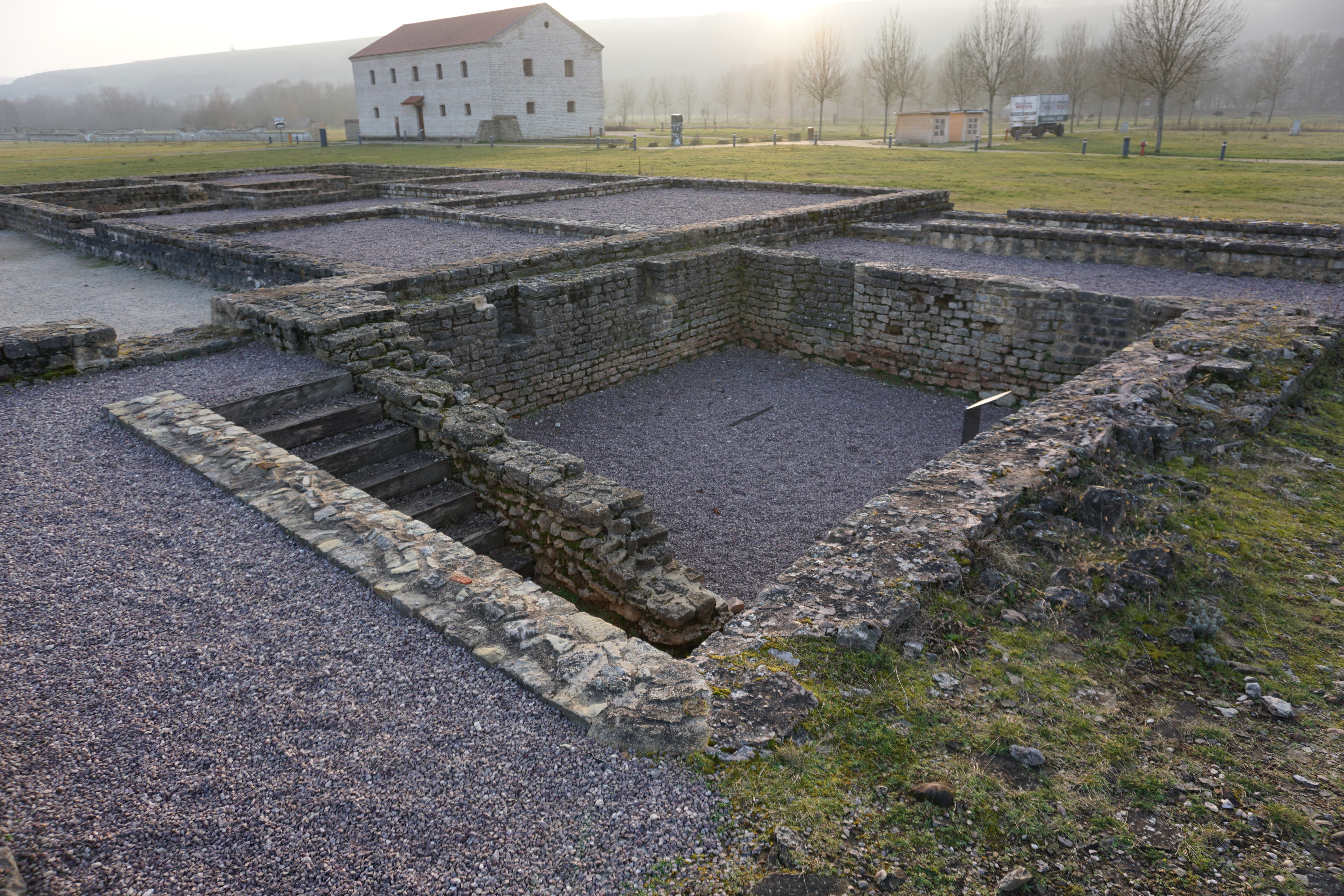 Cellar in the west wing of the Roman Villa of Reinheim